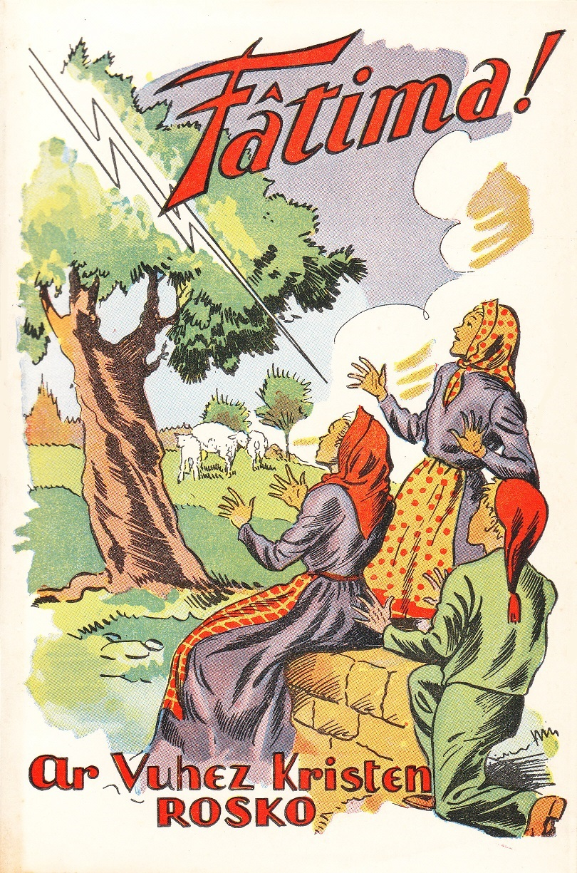 Cover of "Fatima!", by Jacques Dourmab, aka "Tad Medar", published in Breton in 1943 with Nihil obstat 1943/9/10.